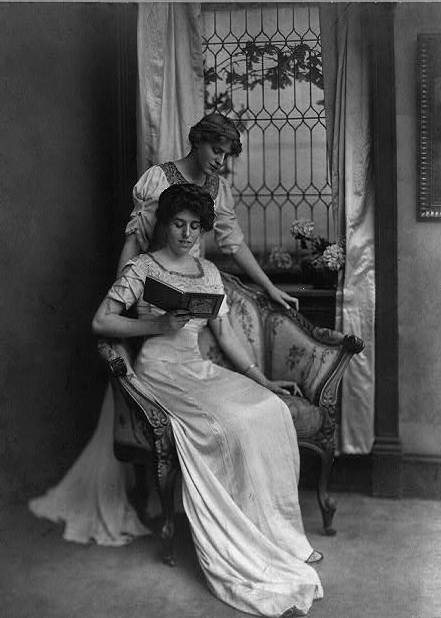 Two daughters of Woodrow Wilson, Miss Jessie Wilson, standing, and Miss Eleanor R. Wilson, seated, reading.